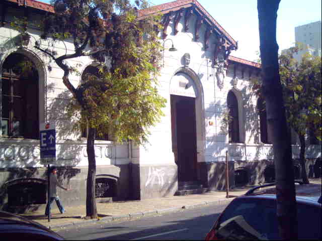 Faculty of Arts of the University of Chile,Theatre School.